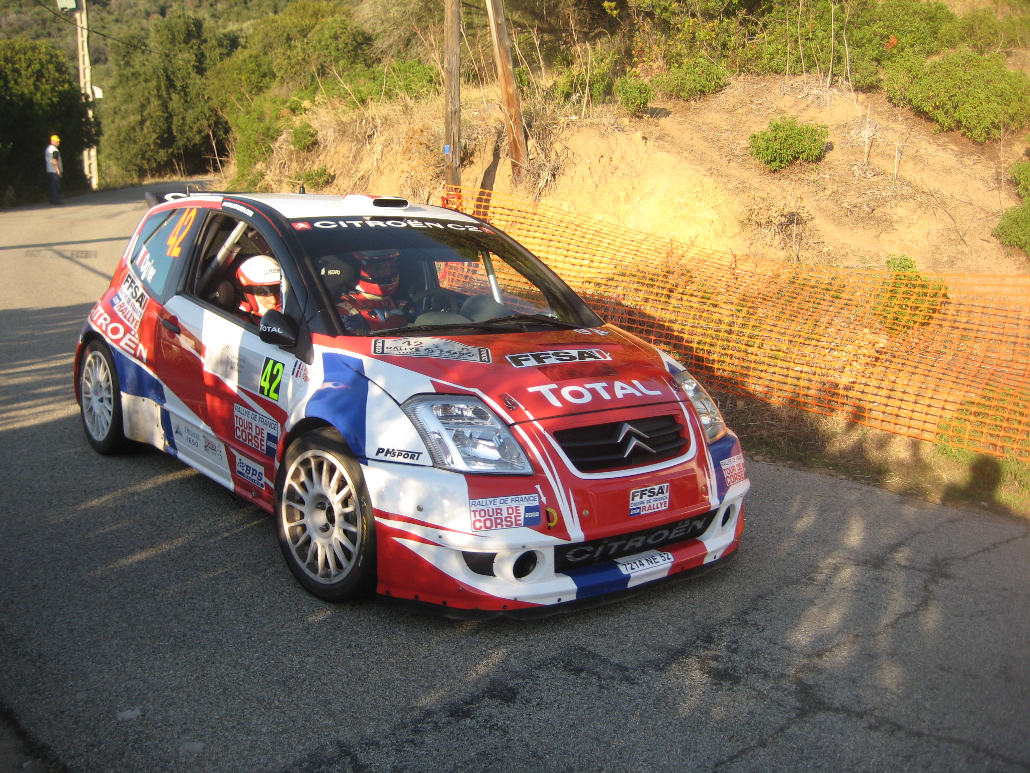 2008 Rallye de France, Day 2-SS12-finish, Sébastien Ogier - Citroen C2 S1600